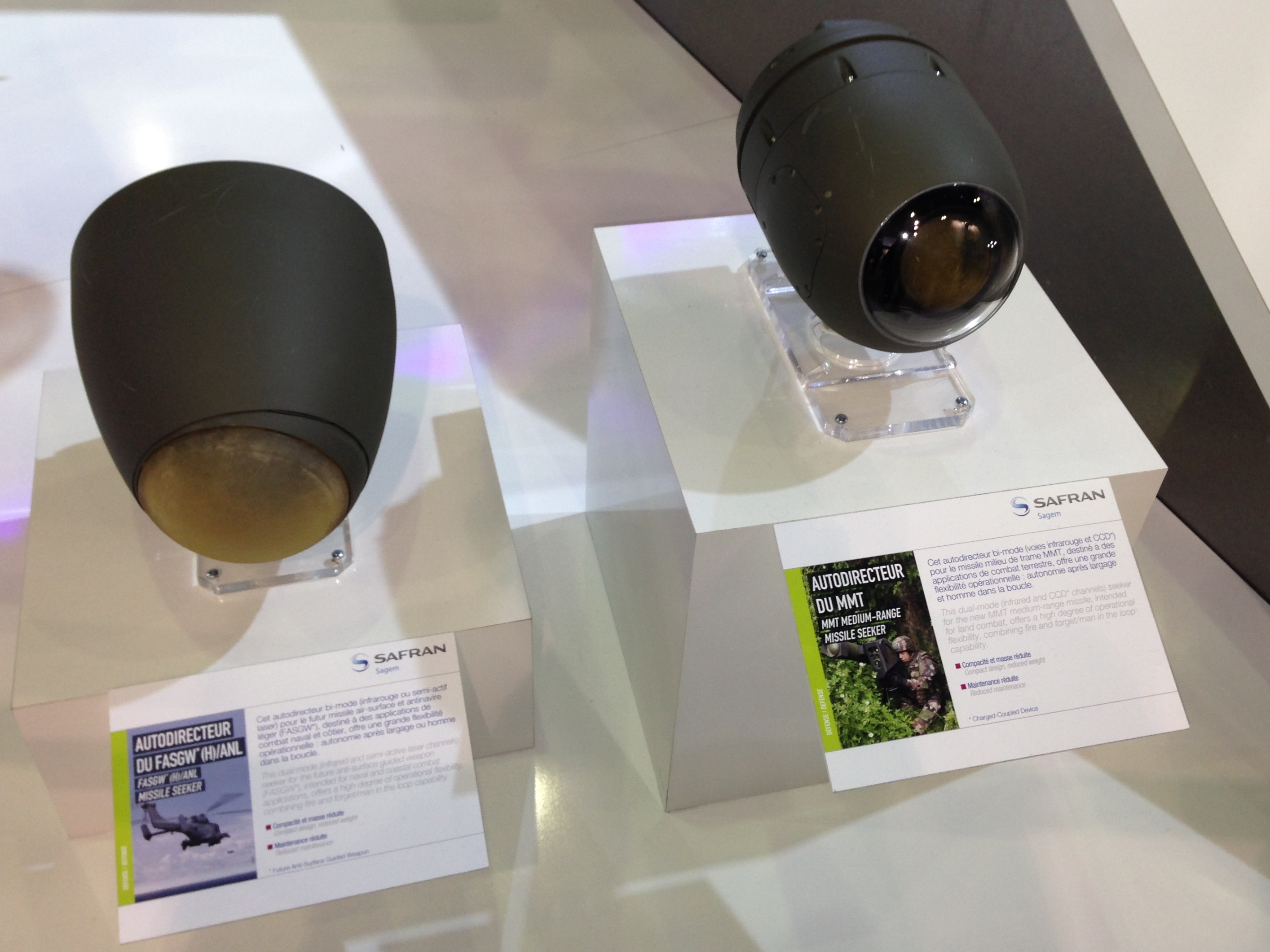 Photography taken at the Paris Air Show 2013